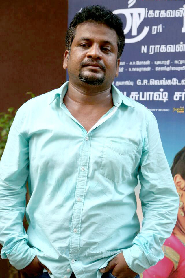 Director A Sarkunam at the Manjapai Press Meet